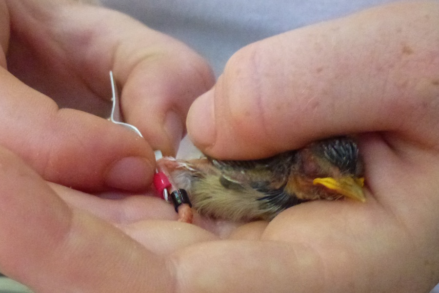 Nestling getting rings: the birds are closely monitored and ringed in order to individually recognise them in the field